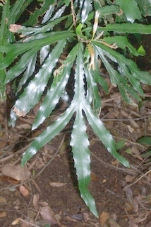 Orites excelsa at Toorumbee Trail, Willi Willi National Park at Mount Banda Banda